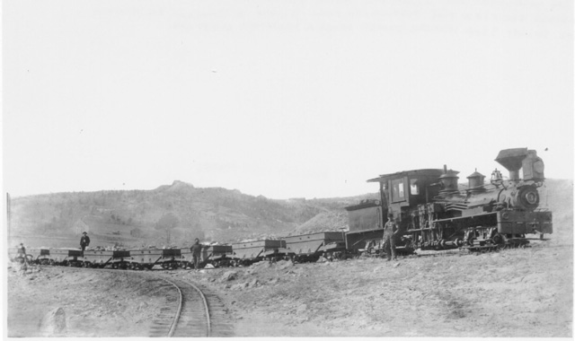 Gilpin Tram. A harp switchstand can be seen at far left. Shay #3 is backing down off of the Quartz Hill branch at Leavenworth Siding, on the south slope of Quartz Hill.